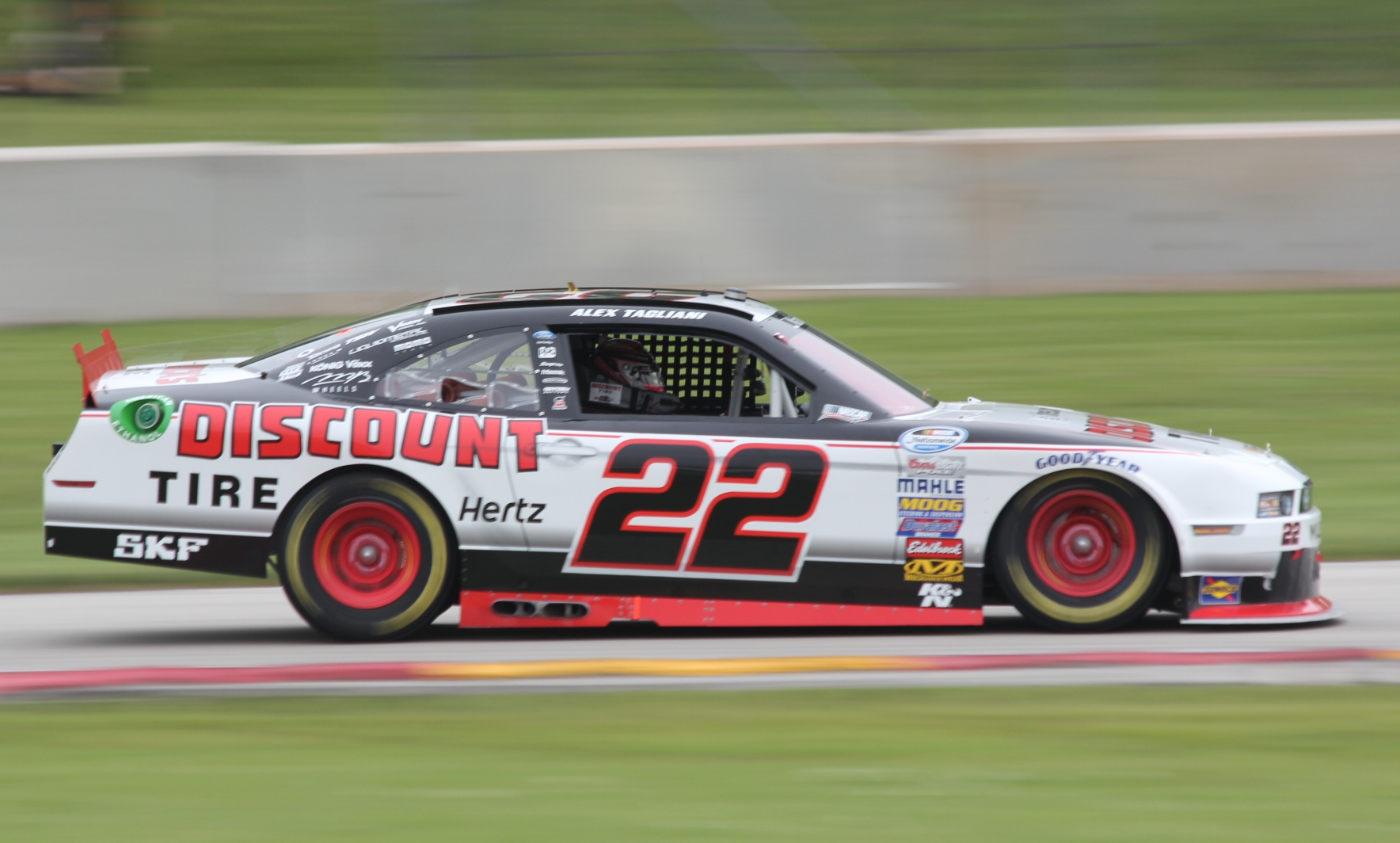 The driver's side of Alex Tagliani Nationwide car during the 2014 Gardner Denver 200 at Road America. Taken racing in turn 13.